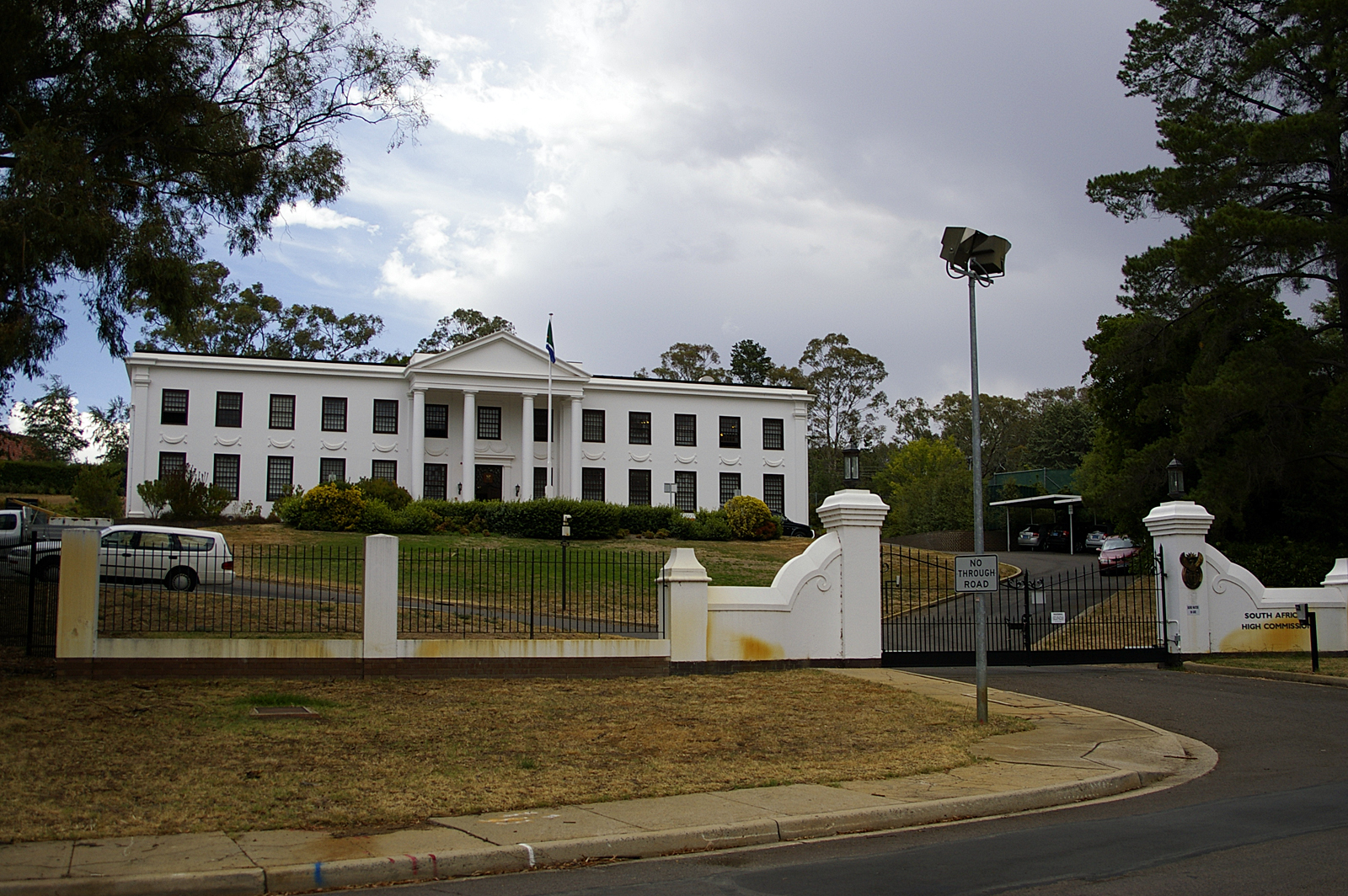 High Commission of South Africa located in the Canberra suburb of Yarralumla, Australian Capital Territory, Australia.